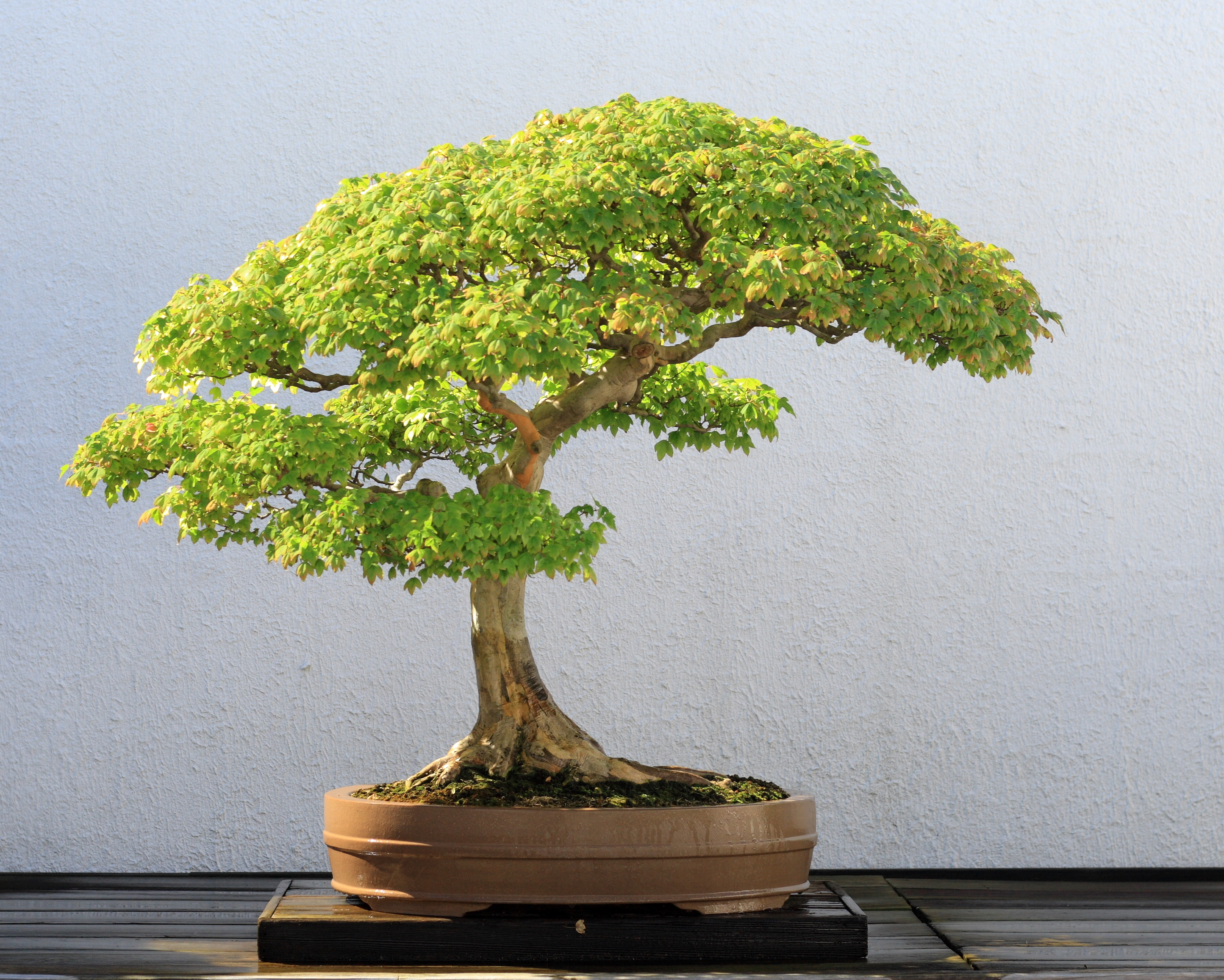 A Trident Maple (Acer buergerianum) bonsai, Japanese Collection 52, on display at the National Bonsai & Penjing Museum at the United States National Arboretum. According to the tree's display placard, it has been in training since 1895. It was donated by Prince Takamatsu.